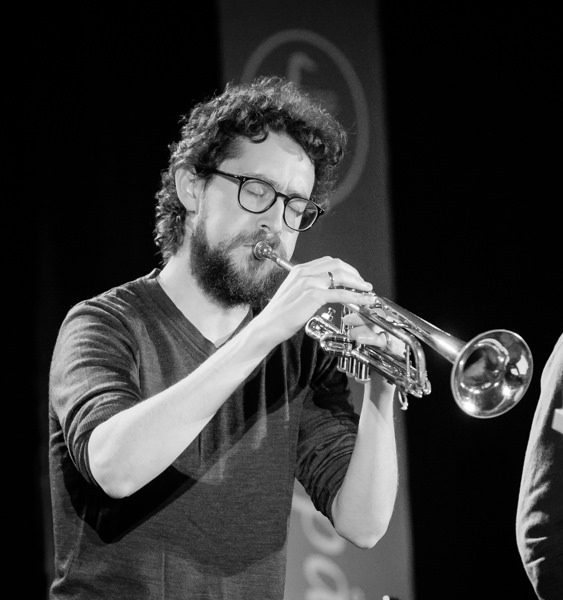 Hayden Powell with Significant Time at the stage at Thon Hotel Jølster. The concert was part of Jazz på Jølst and took place on 14. October 2017. Lineup: Øyvind Dale (piano), Signe Irene Time (vocal), Fredrik Luhr Dietrichson (double bass), André Roligheten (saxophone), Hayden Powell (trumpet) and Raymond Lavik (drums).